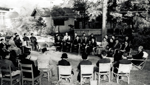 1960 Chang Myon Primeminister and Korean House